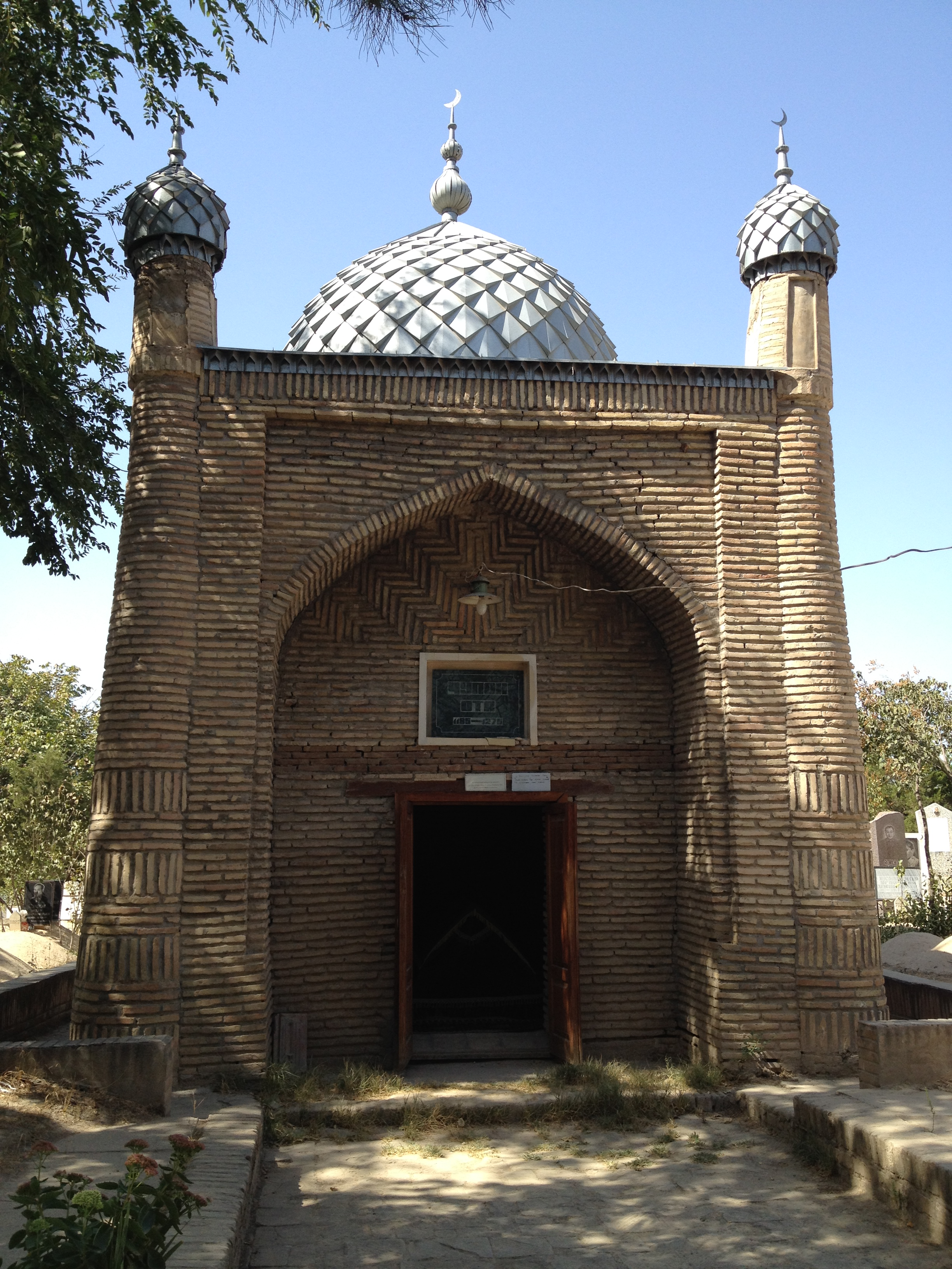 Chopon-ota mausoleum in Tashkent